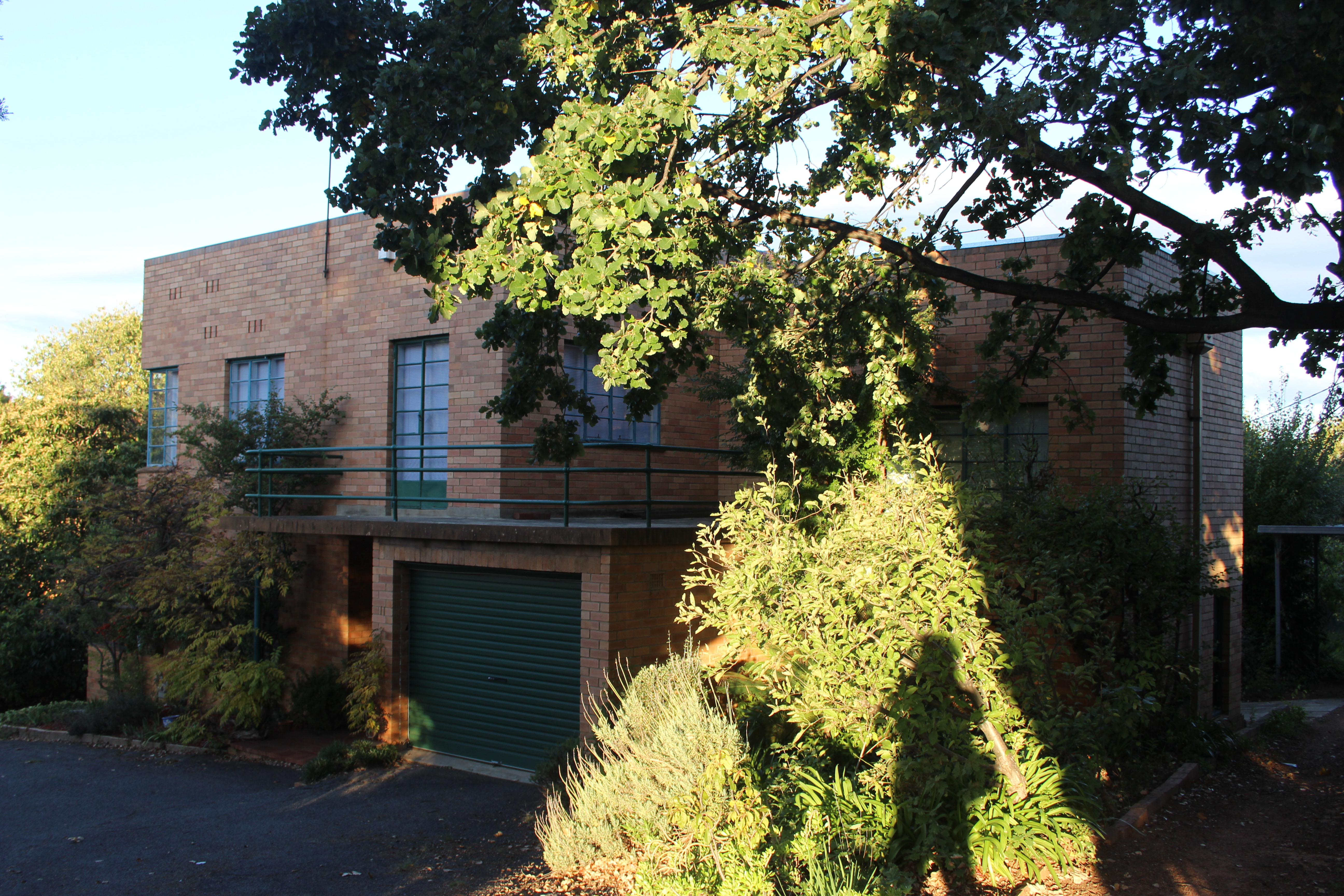 Evans Crescent House, Griffith ACT